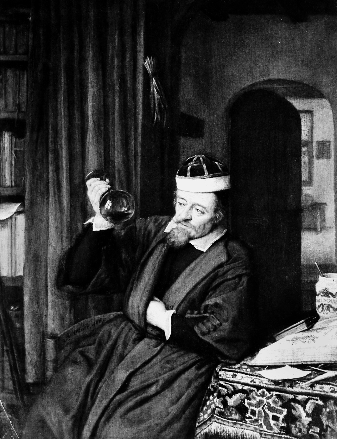 A physician examining his own urine in a flask and feeling his heart-beat. In the Altes Museum (?), Berlin Wellcome Images Keywords: urine, examination: 1665; Adriaen van Ostade